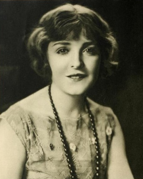 Publicity photo of Enid Bennett from Stars of the Photoplay. Enid Bennett, the wife of the director, Fred Niblo, was born in York, Western Australia, in 1895. Her stage career started when she secured all engagement as Modesty in "Everywoman." Fred Niblo, then playing in Australia, saw her and immediately engaged her to appear in his repertoire company. Soon after, she came to America and has since become one of the foremost stars of the screen, having appeared in such productions as "Robin Hood" and "The Courtship of Miles Standish." She is five feet, three inches in height, weighs 110 pounds, and has golden brown hair and hazel eyes.